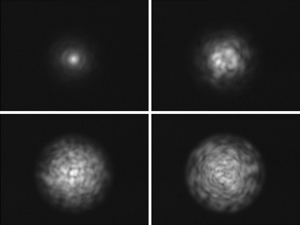 Different beam profiles of one and the same multi-mode fiber, depending on the light in-coupling characteristics and the bending of the fiber.